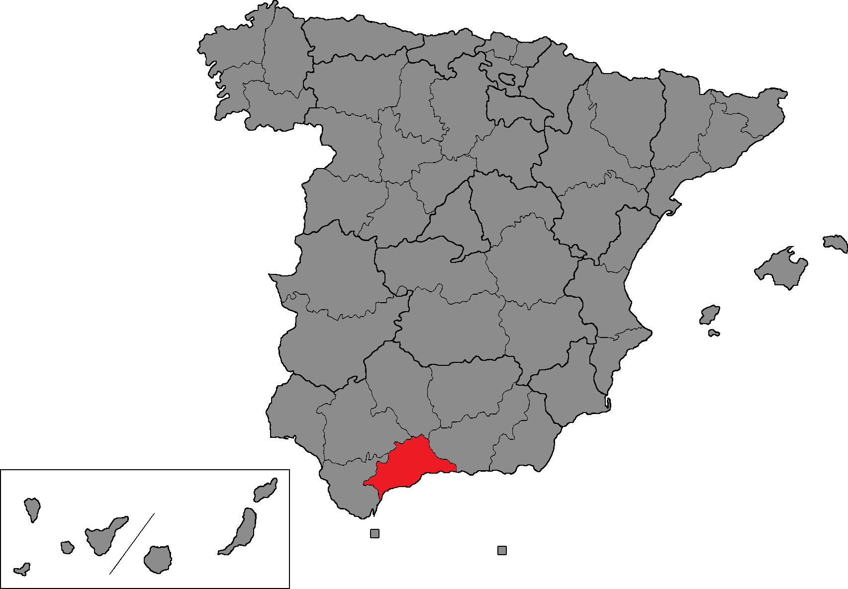 Spanish Congress of Deputies district of Málaga.